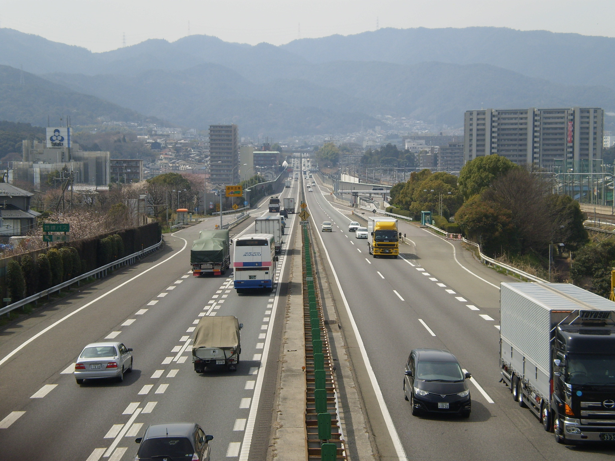 Meishin Expressway. I took this image at Nogobara-1chome Otsu City Shiga Pref., Japan.